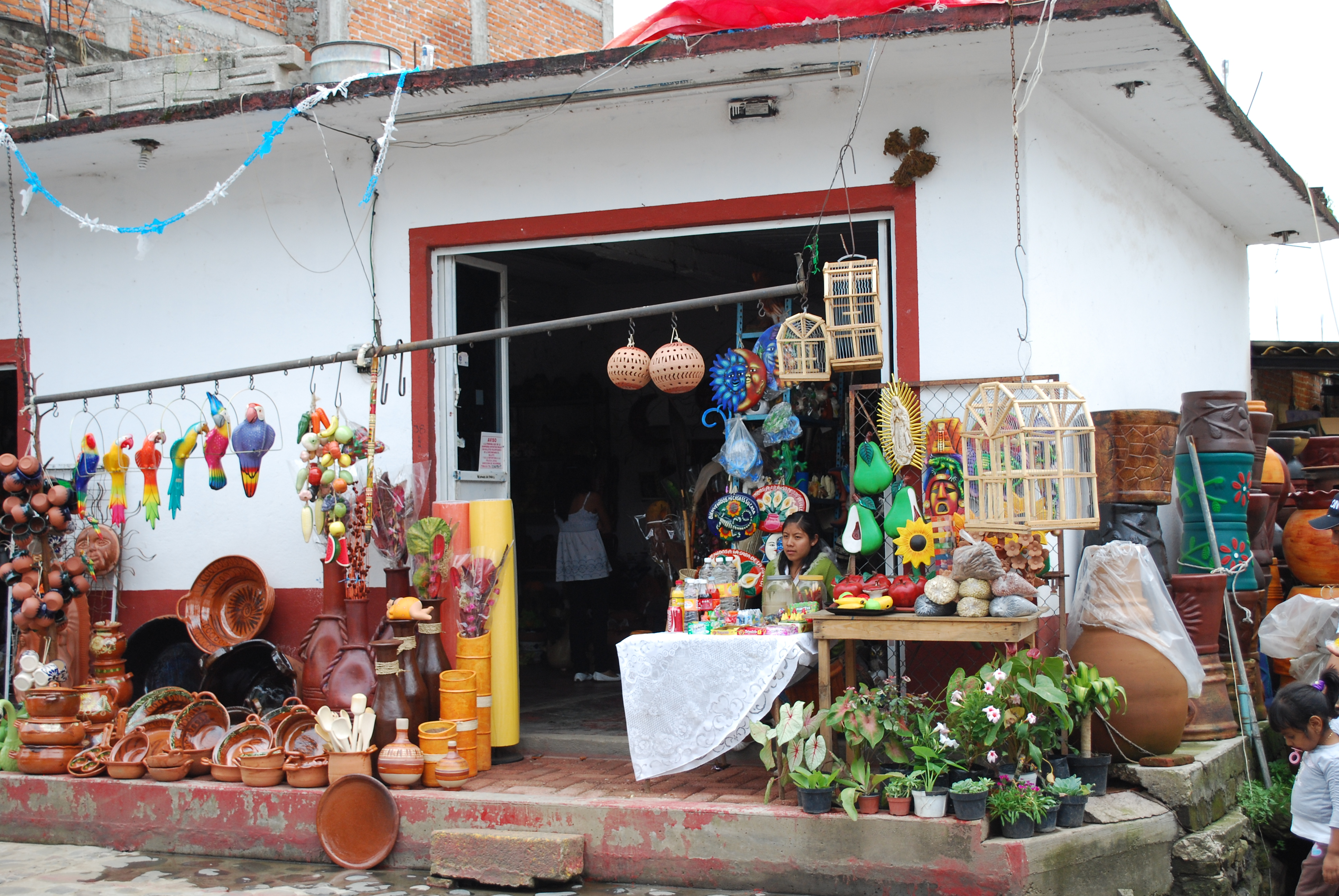 Store selling pottery and other crafts in Tlayacapan, Morelos, Mexico